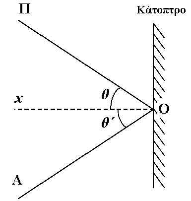 Reflection law